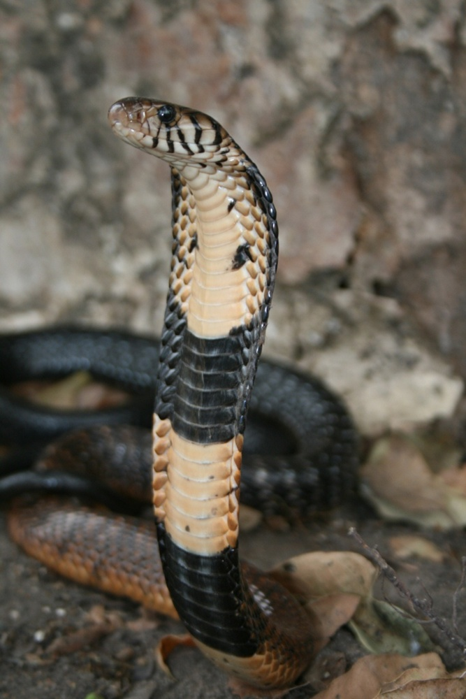 A forest cobra (Naja melanoleuca) with its hood spread.